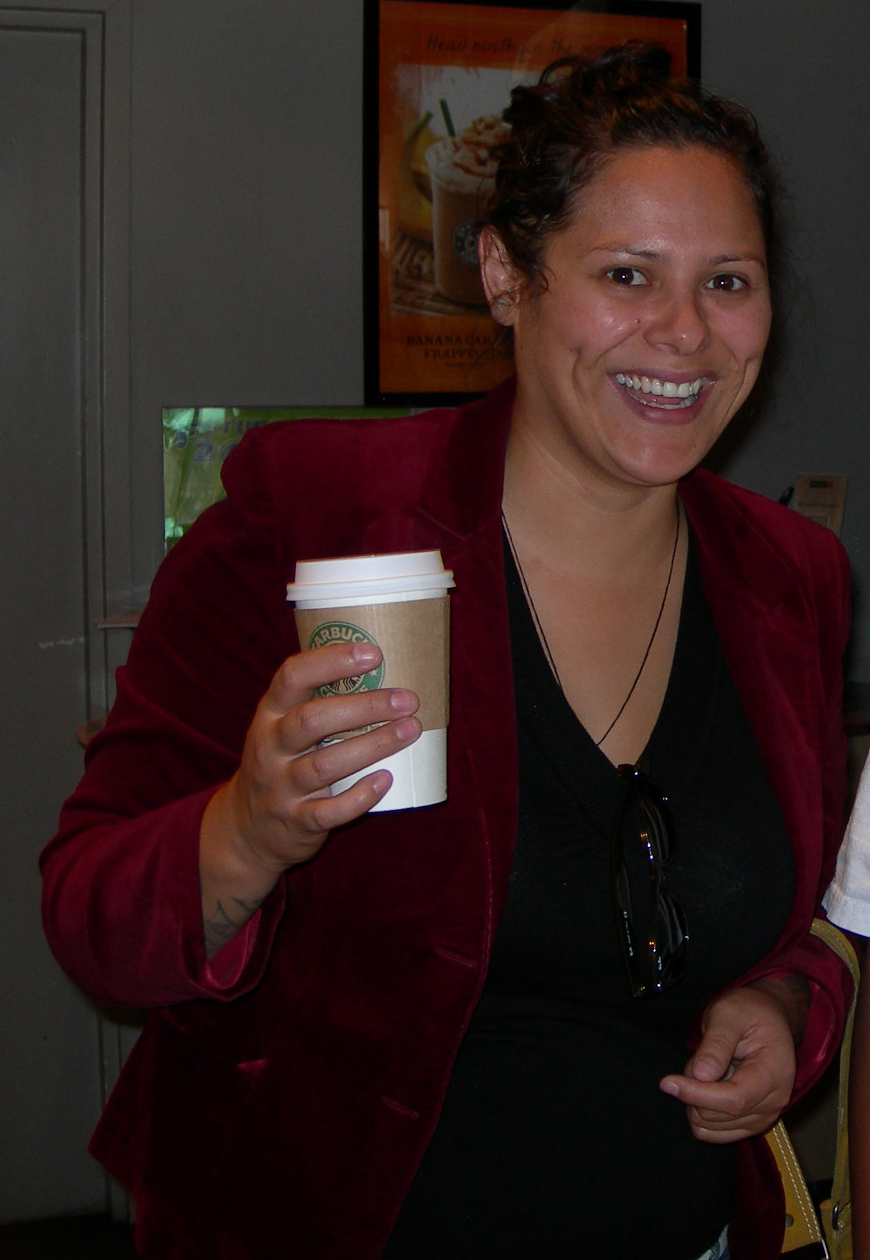 Anika Moa in Invercargill,NZ - 19 March 2006